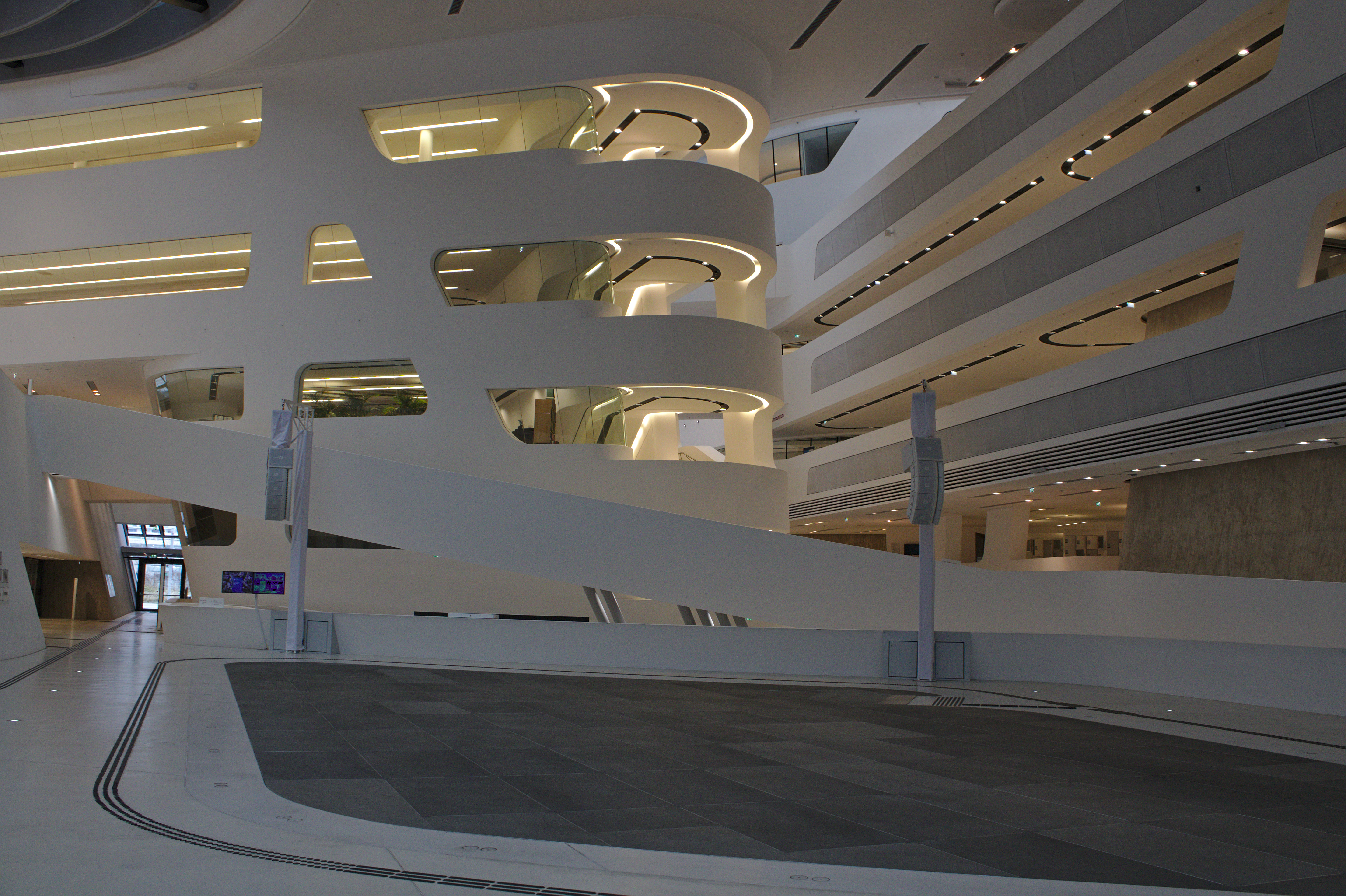 WU_Wien,_Library_and_Learning_Center_Vienna_19-20